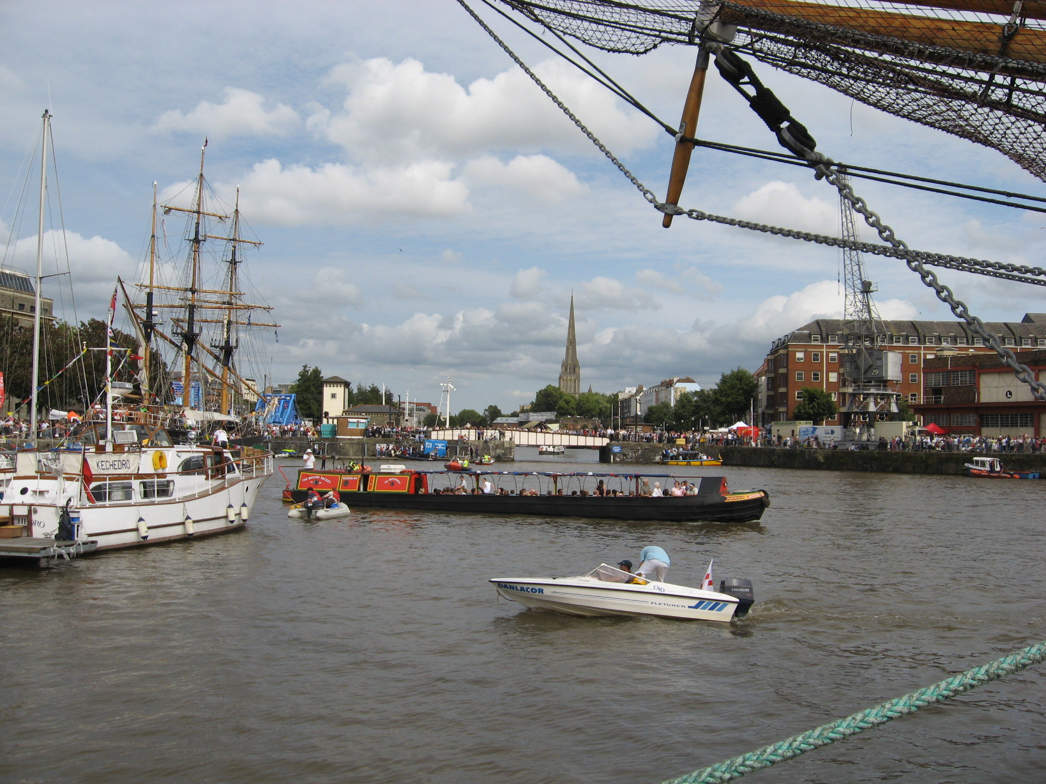 Bristol, England, harbour festival